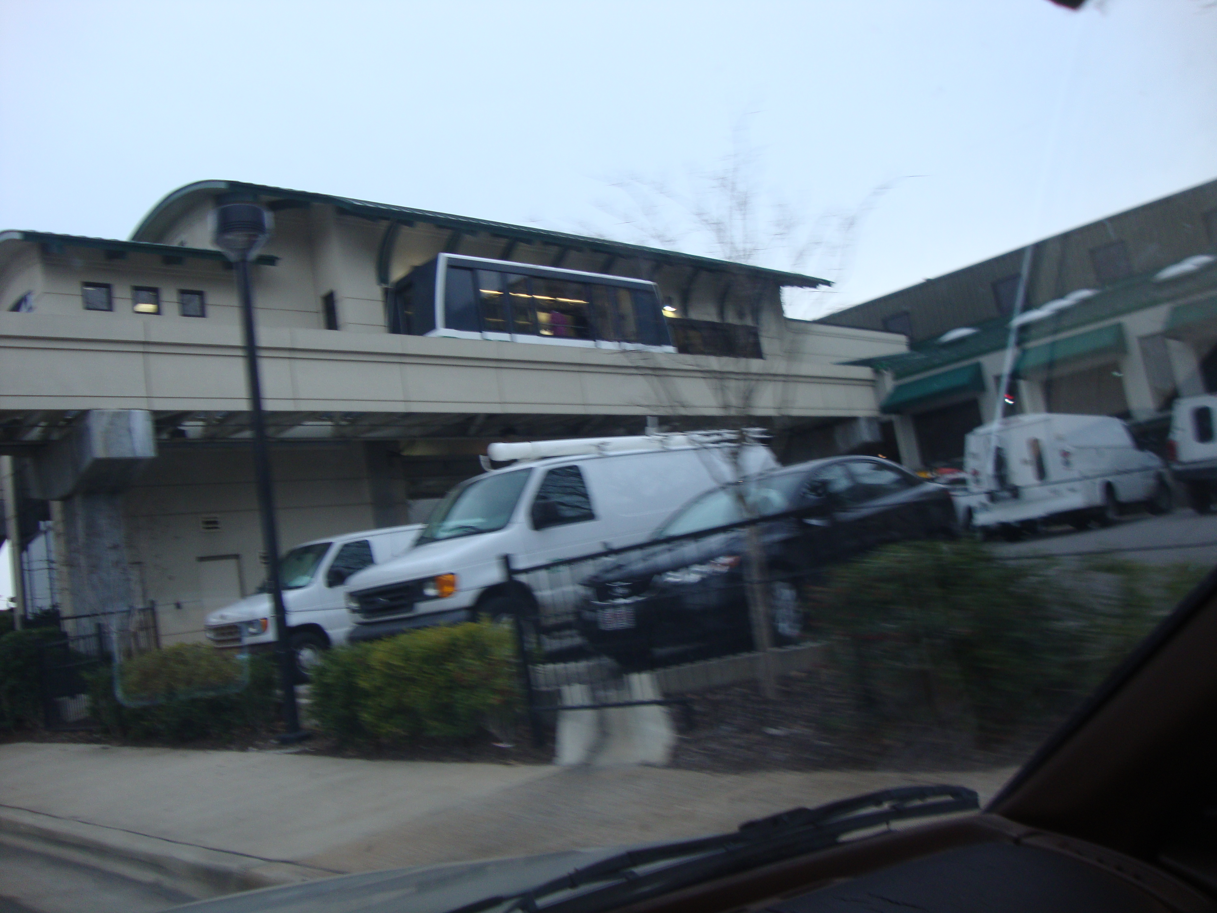 The tram system of Huntsville Hospital